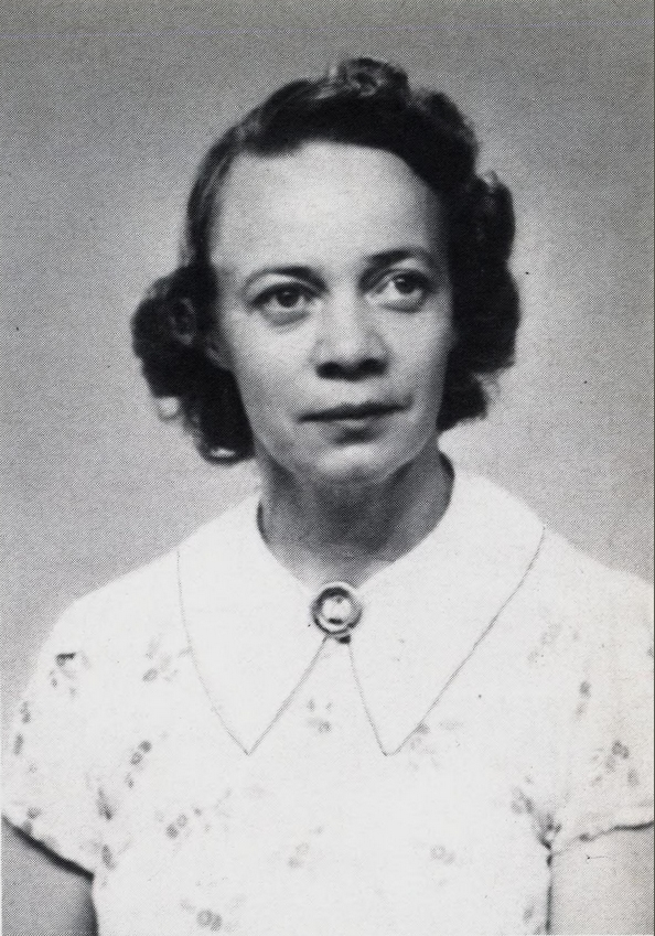 Norwegian autor Åsta Holt in 1945